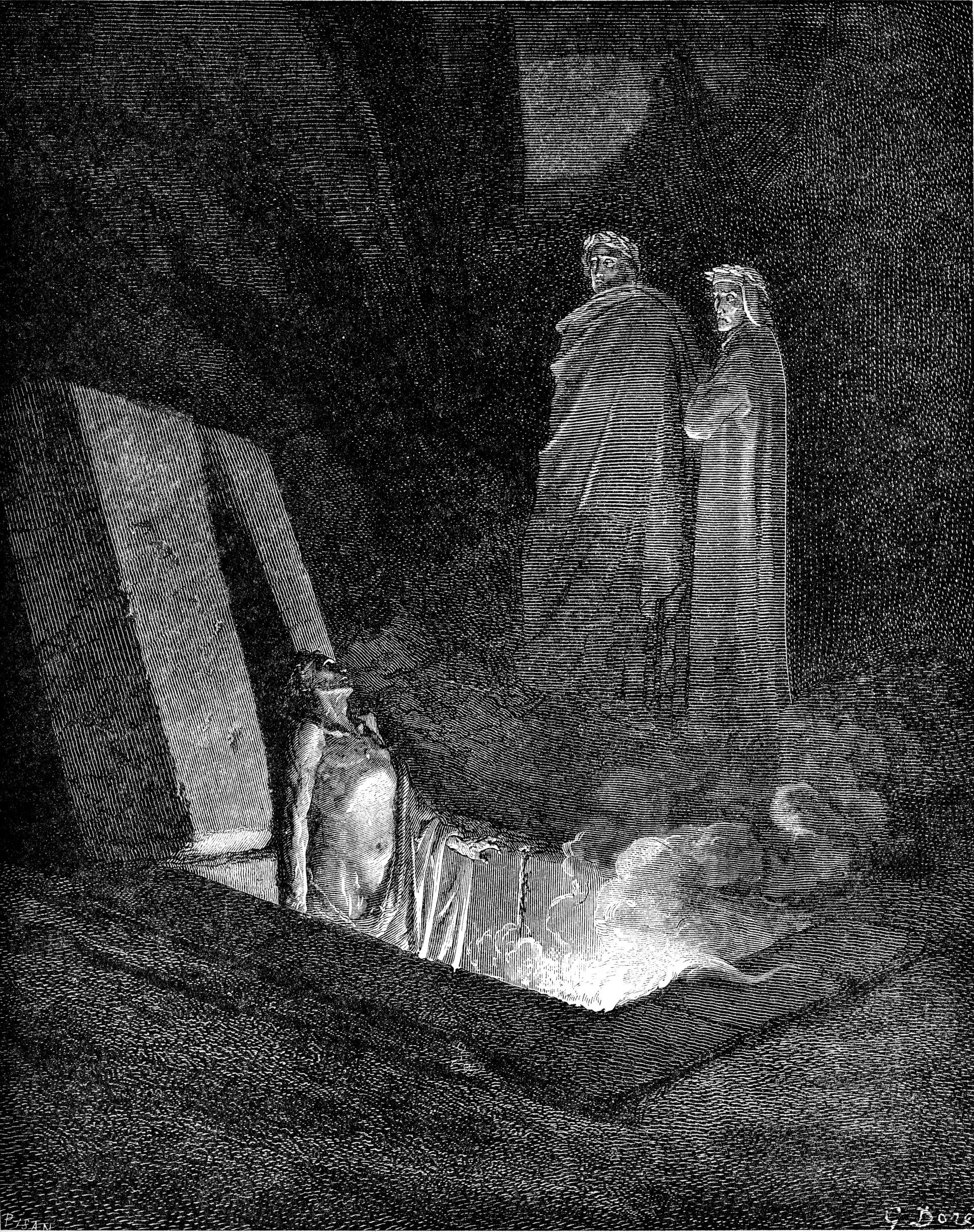 High resolution scan of engraving by Gustave Doré illustrating Canto X of Divine Comedy, Inferno, by Dante Alighieri. Caption: Farinata degli Uberti addresses Dante